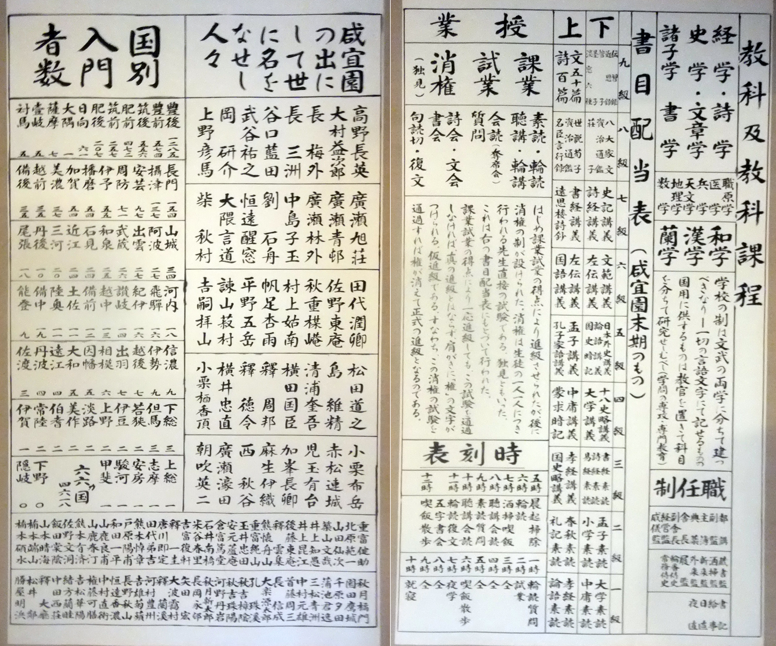 Organization, teaching subjects, and famous graduates of the 19th century Kangien-Academy in Hita (Prefecture Oita, Japan). Table from the Kangien Education and Research Center (Hita)